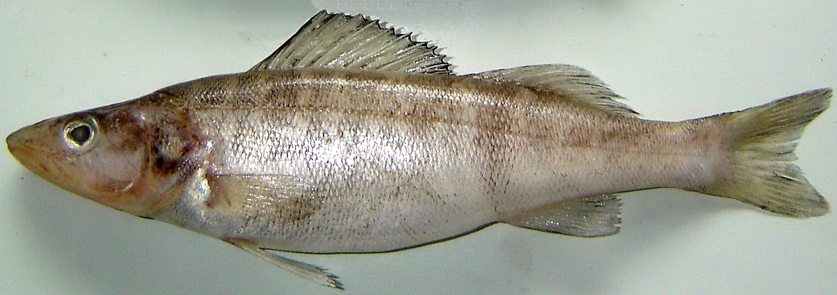 Estuarine Perch (Sander marinus) from the Caspian Sea near Bandar-e Anzali, Iran